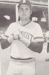 Paul Jata in Comiskey Park